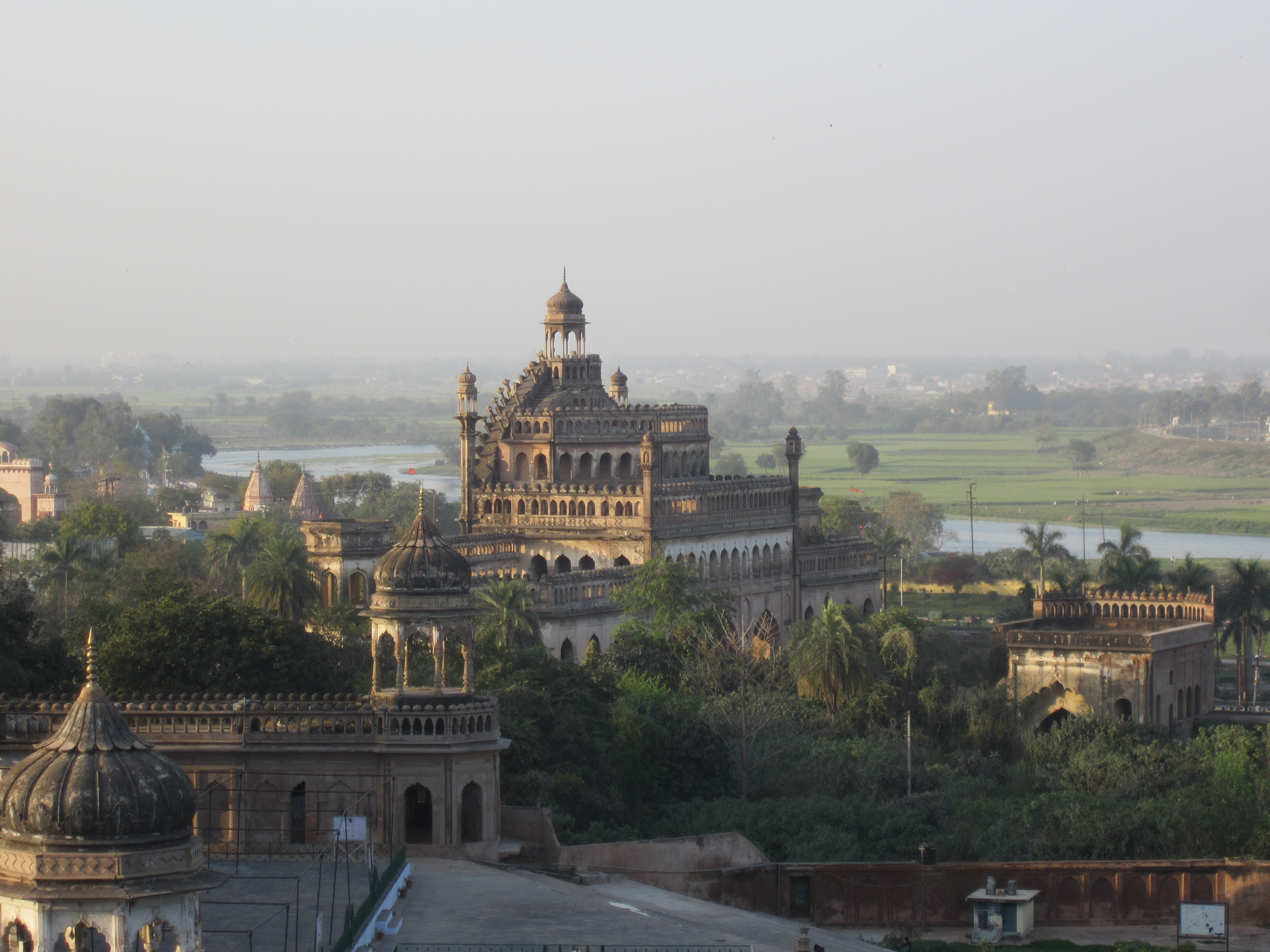 Aerial view of Rumi Darwaza, from Bada Imambara, Lucknow